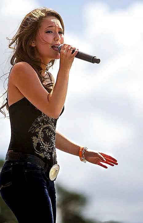 Kira Isabella performed at the Boots and Hearts Music Festival 2013 held in Bowmanville, ON